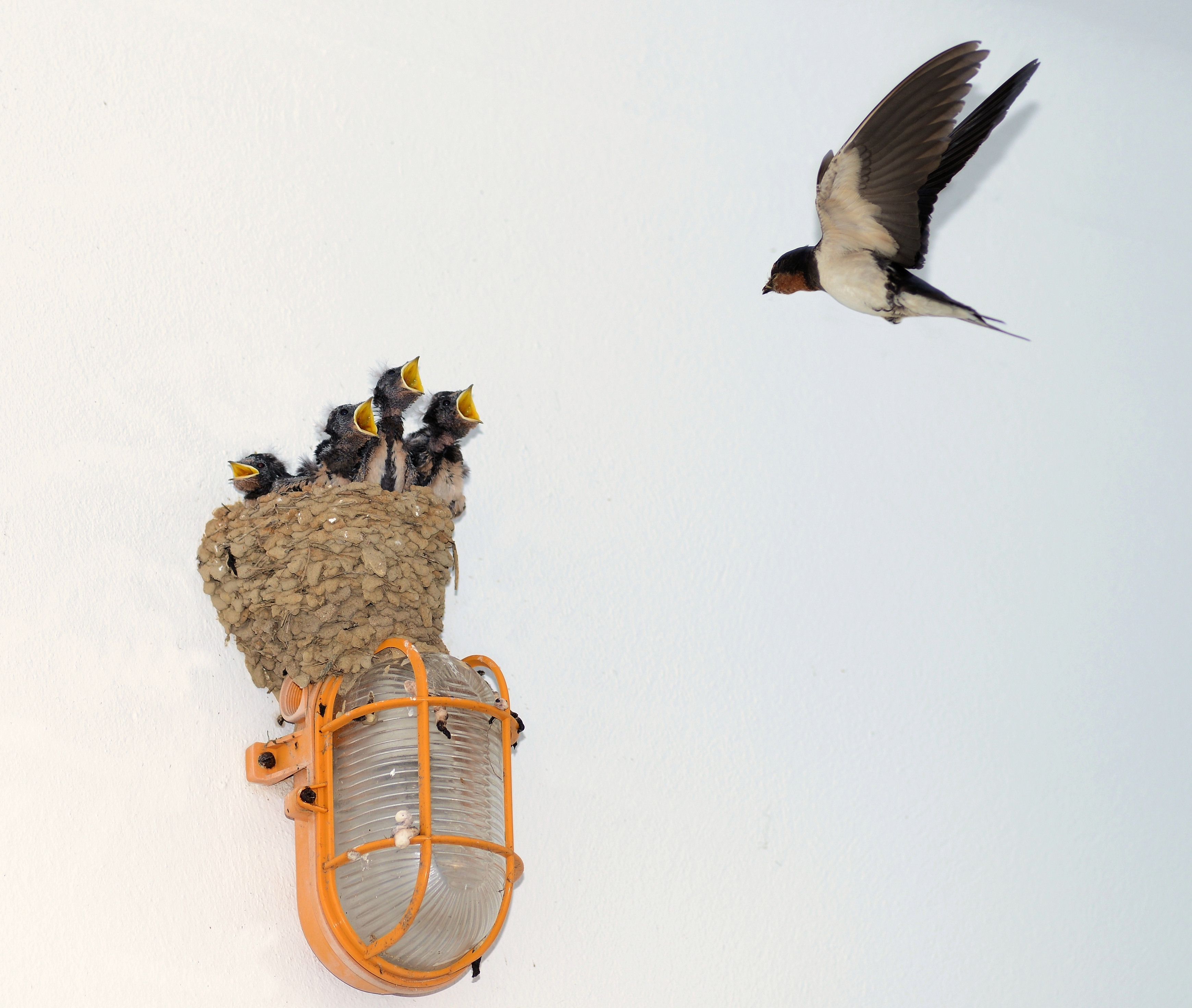 Juveniles of Barn Swallow being fed by their mother. Porto Covo, Portugal